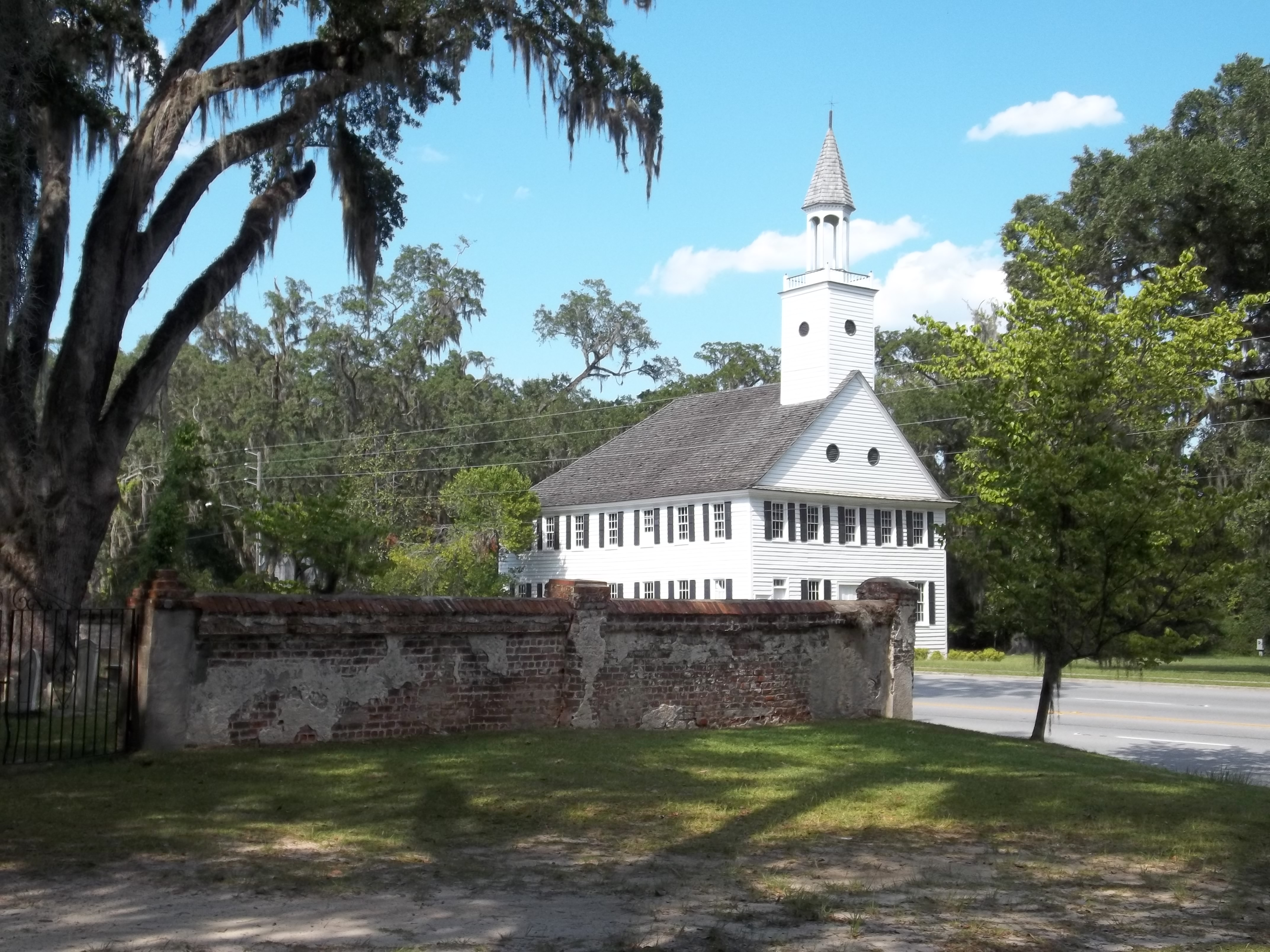 Savannah, Georgia: Midway Historic District: Old Midway Cemetery in foreground. Midway Church, built in 1792, in background.